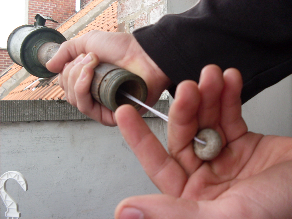 Rope (replica) from Stielhandgranate 1917.